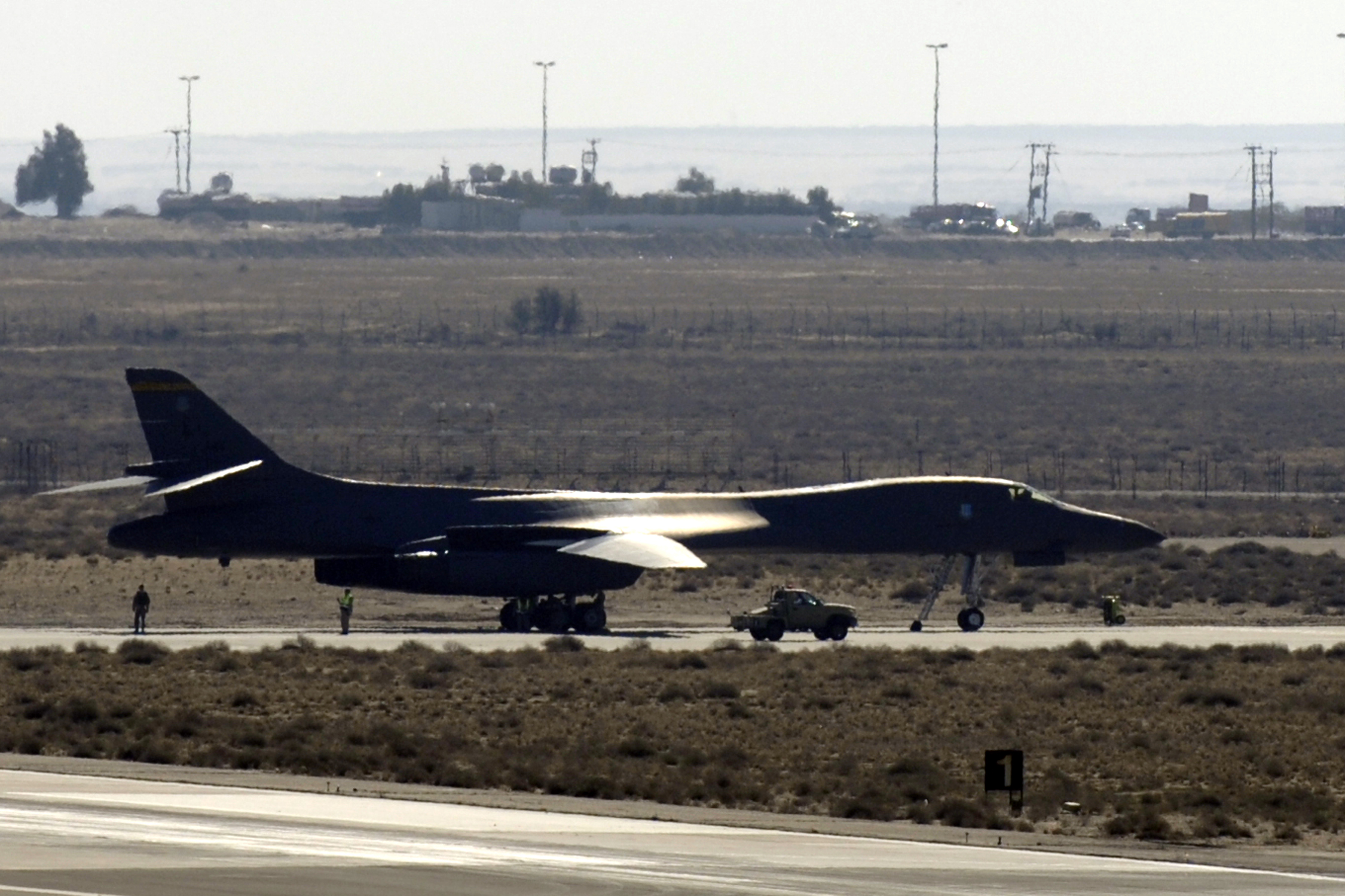 OPERATION IRAQI FREEDOM A U.S. Air Force B-1B Lancer aircraft sits on the hot ramp waiting to be refueled and approved to launch by the 386th Air Expeditionary Wing at an undisclosed location in Southwest Asia Jan. 25, 2007.